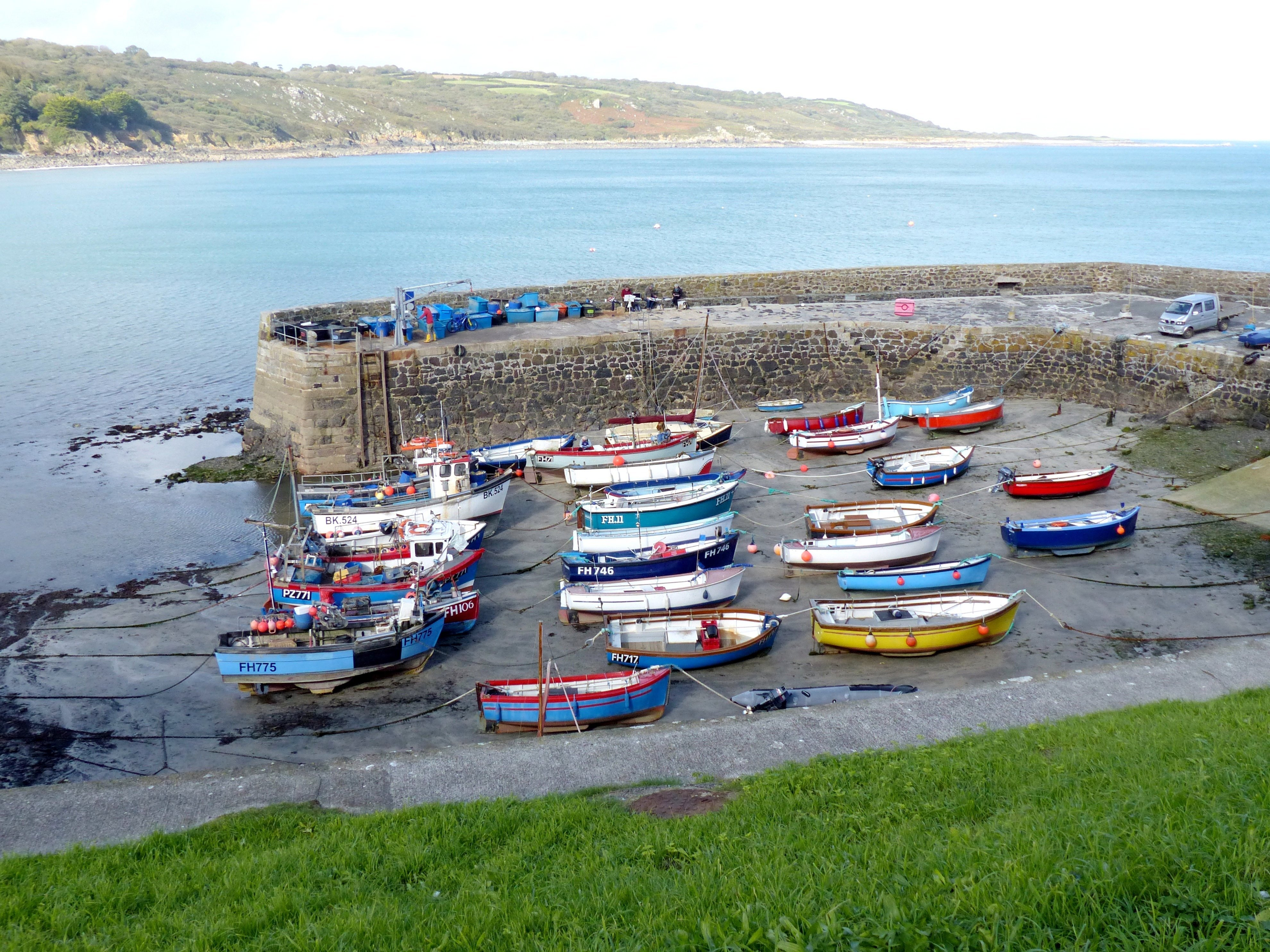 Coverack harbour in Cornwall, England. Coverack is on the Lizard peninsula.